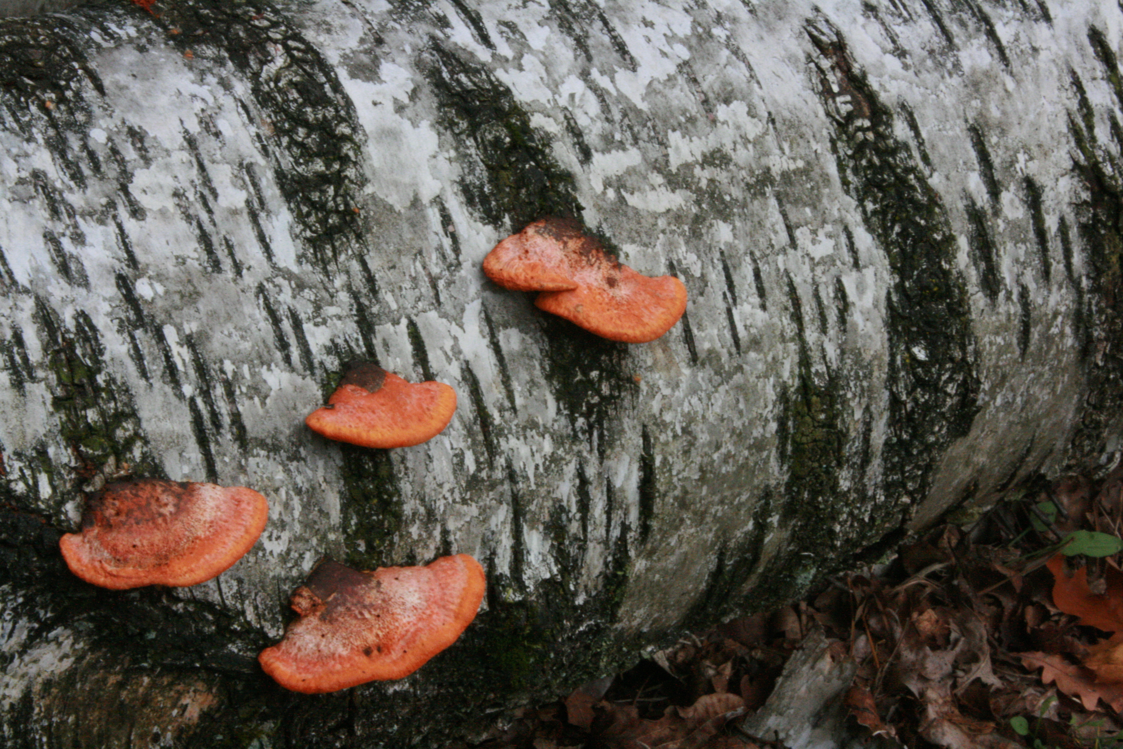 Pycnoporus cinnabarinus